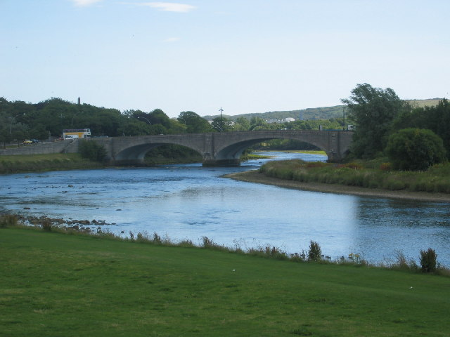 George VIth Bridge over the River Dee, Aberdeen. One of the main bridges over the River Dee